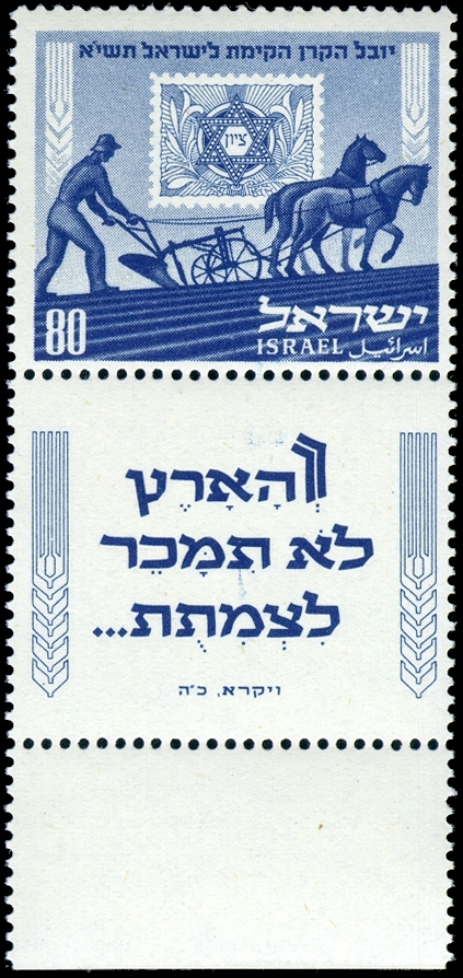 Jewish National Fund (J.N.F.) stamp - 80 mil. Inscription: "50th anniversary of the Jewish National Fund". Inscription on tab: "...the land shall not be sold for ever..." Leviticus XXV, 23